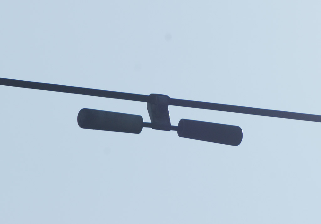 A Stockbridge damper on a 132 kV overhead transmission line